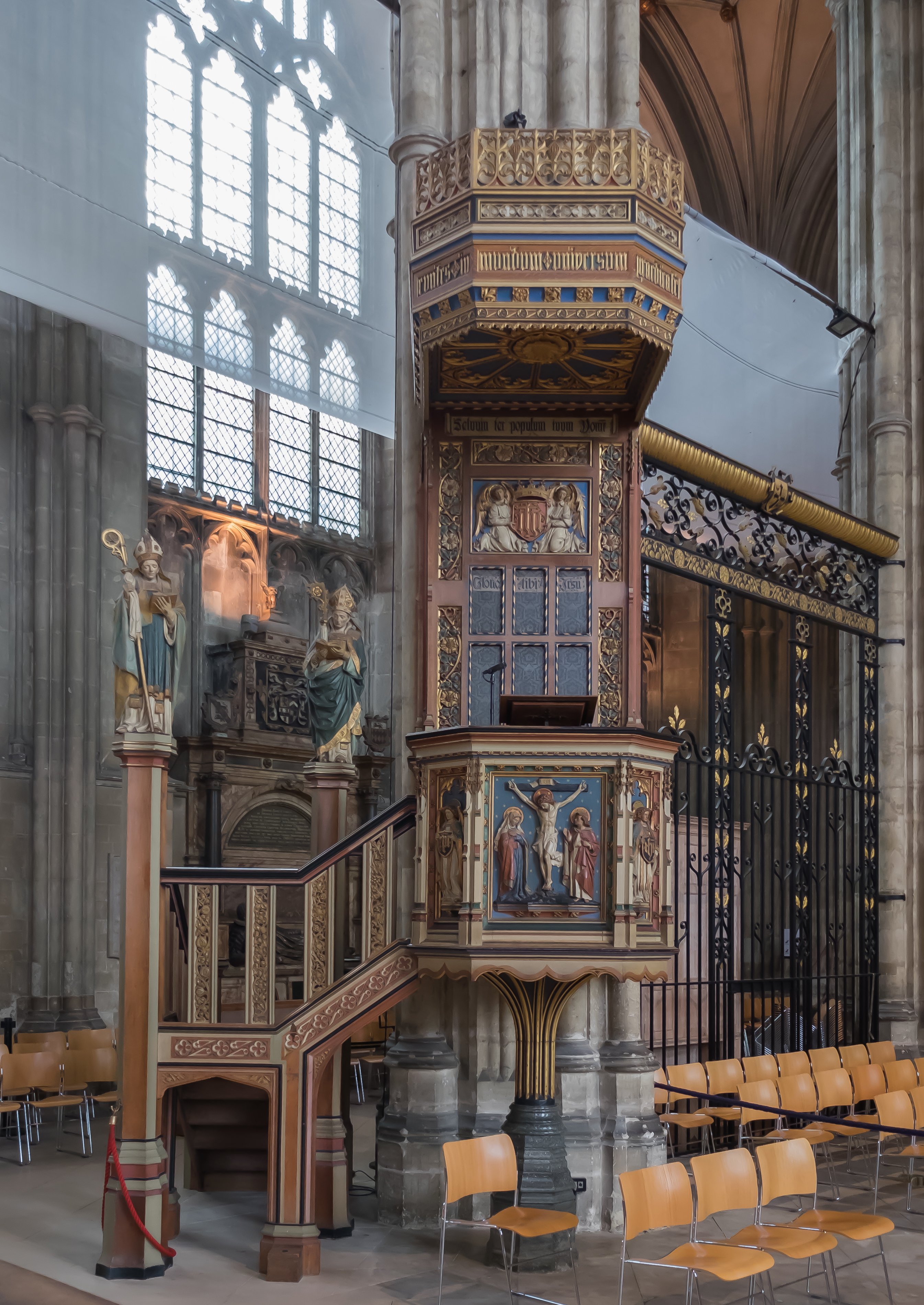 Canterbury Cathedral pulpit. This wooden pulpit is located at the eastern end of the nave and was installed in 1898.[1]